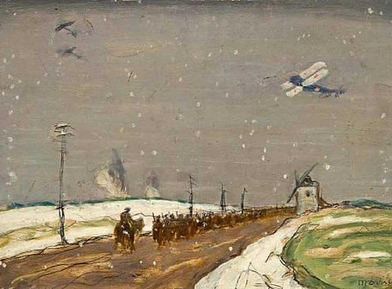 On the march france 1918